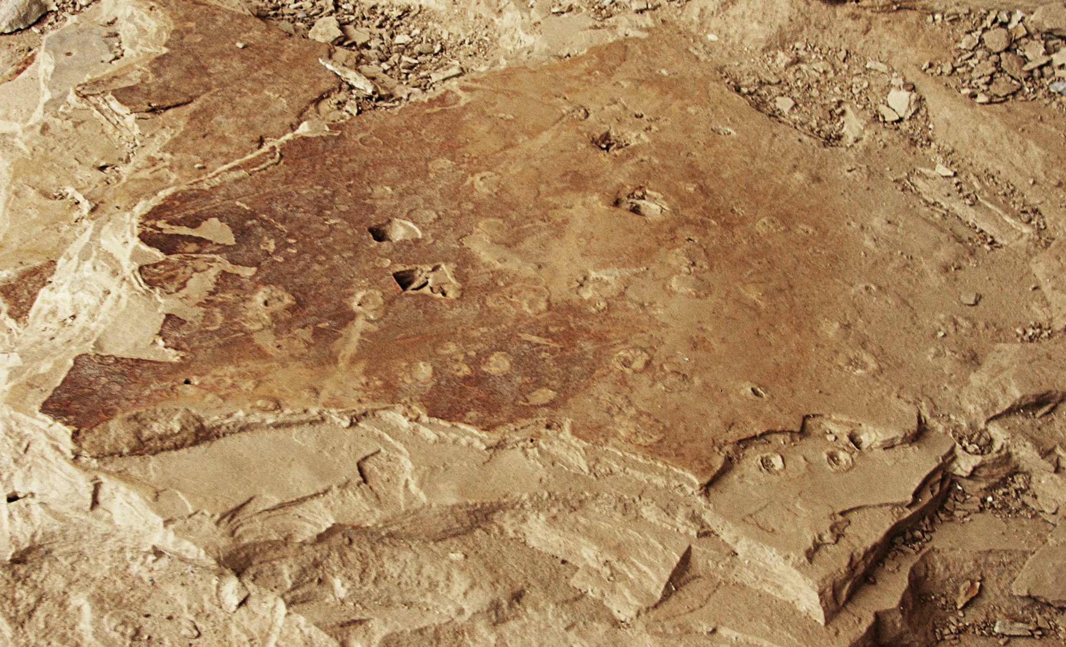 The impressions of raindrops preserved on a bedding plane, in the Taller Mecanico formation of southern Spain.